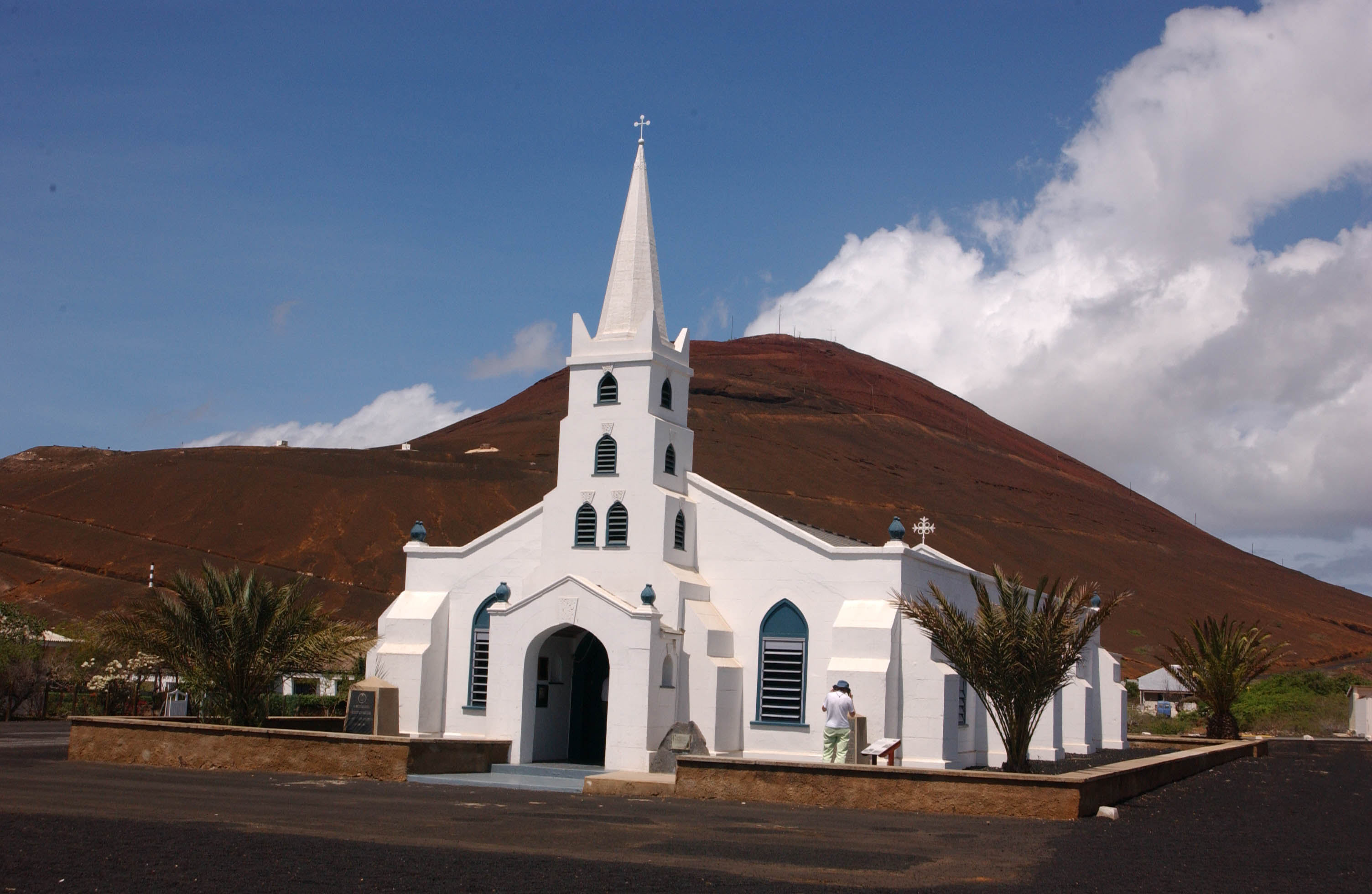 ST. MARY’S CHURCH ANGLICAN CHURCH STARTED IN 1843 on ASCENSION ISLAND